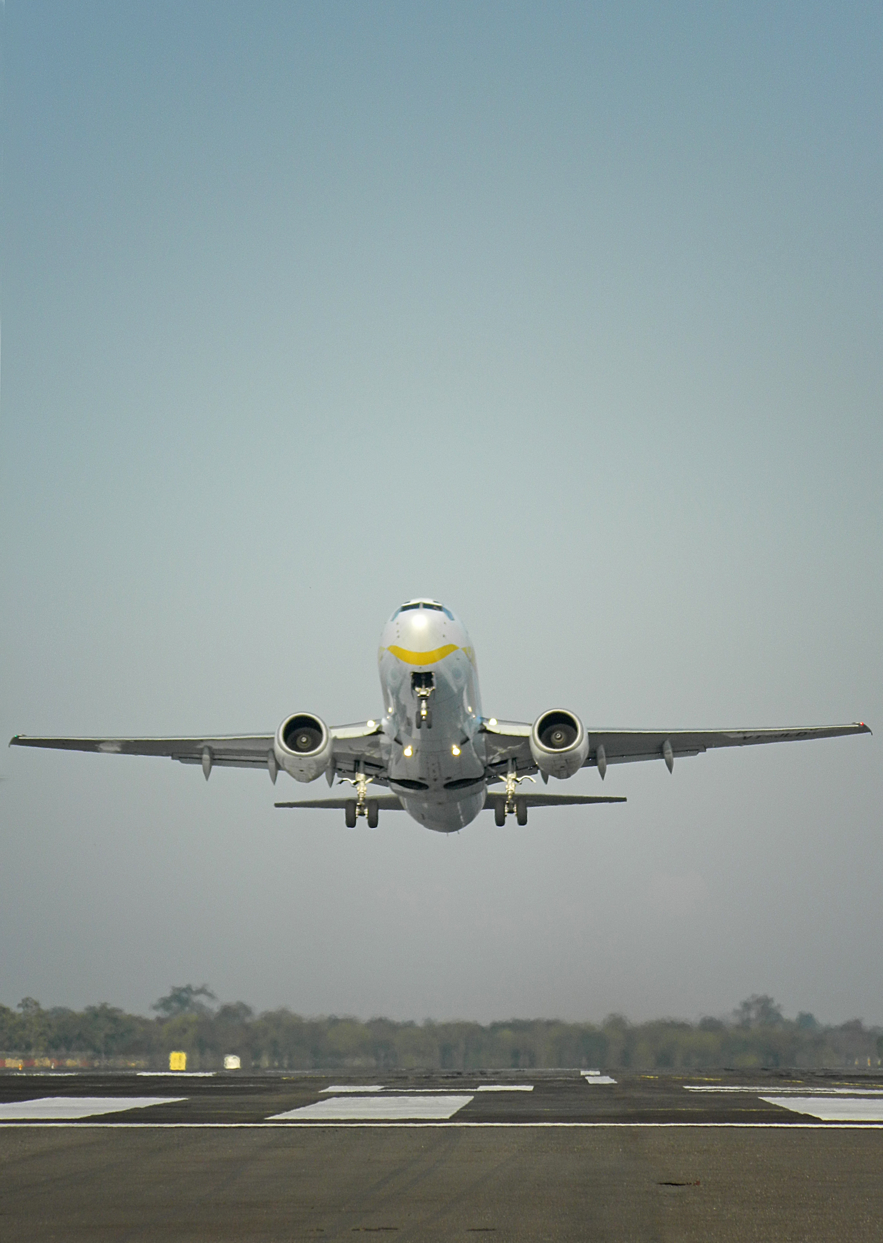 A flight takingoff from Mohanbari Airport, the only airport in Dibrugarh town.